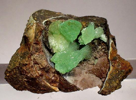 Anapaite Locality: Kerch peninsula (Kertch peninsula), Crimea peninsula, Crimea Oblast', Ukraine (Locality at ) Size: 4.1 x 2.7 x 1.7 cm. Anapaite is a rare phosphate. This showy and excellent specimen features lustrous, gemmy, sea-green anapaite crystals to 1.3 cm aesthetically set in a fossilized mollusk shell from the famous Kerch Peninsula of the Ukraine, near the Black Sea.